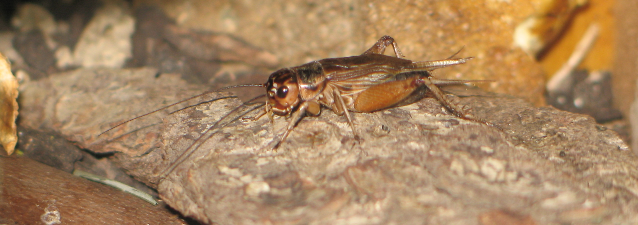 Male of cricket Gryllus assimilis.